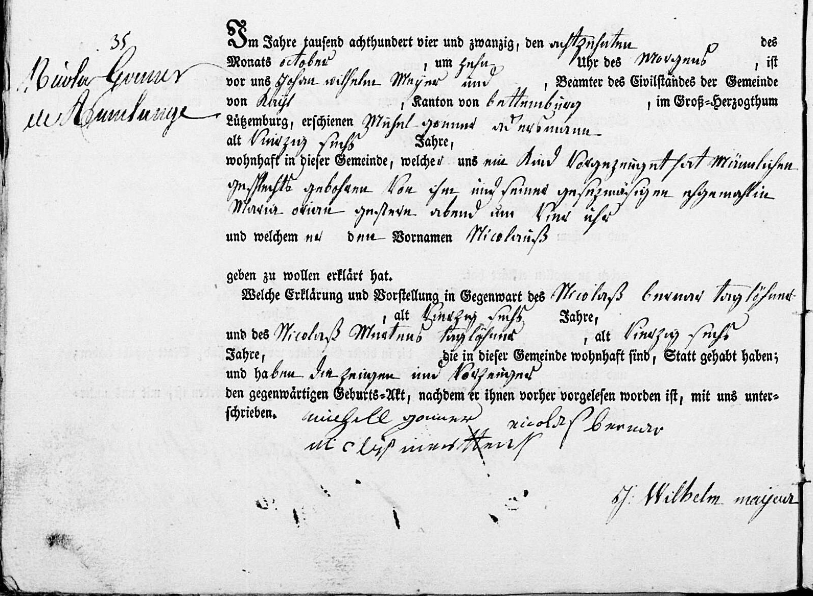 Birth certificate of Nicolas Gonner